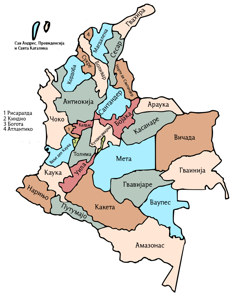 Map of Columbia with departments, transliterated in Serbian Српски (ћирилица): Мапа Колумбије са означеним департманима на српском.